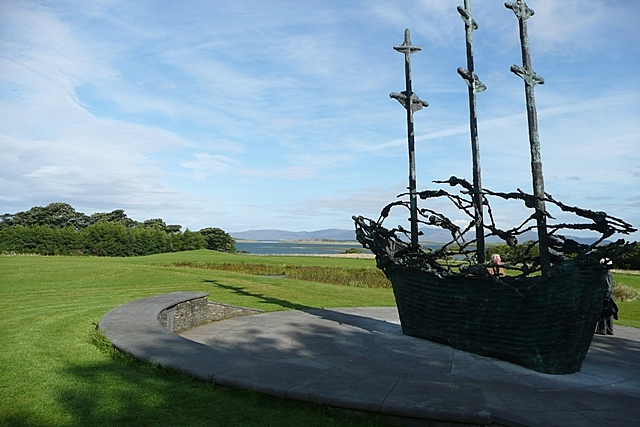 Famine national monument at Murrisk. This is the national monument to the famine of 1845-1848. It was unveiled by President Mary Robinson in 1997, the 150th anniversary of the worst year of the famine. It depicts a coffin ship, one of many overcrowded ships that people used to get away, usually to Canada. The choice was "stay here and die", or "take a ship and probably die".